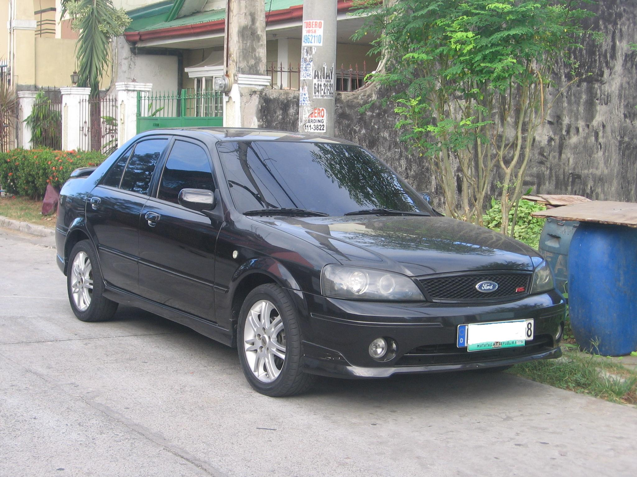 Ford Lynx RS photographed in Cainta Rizal